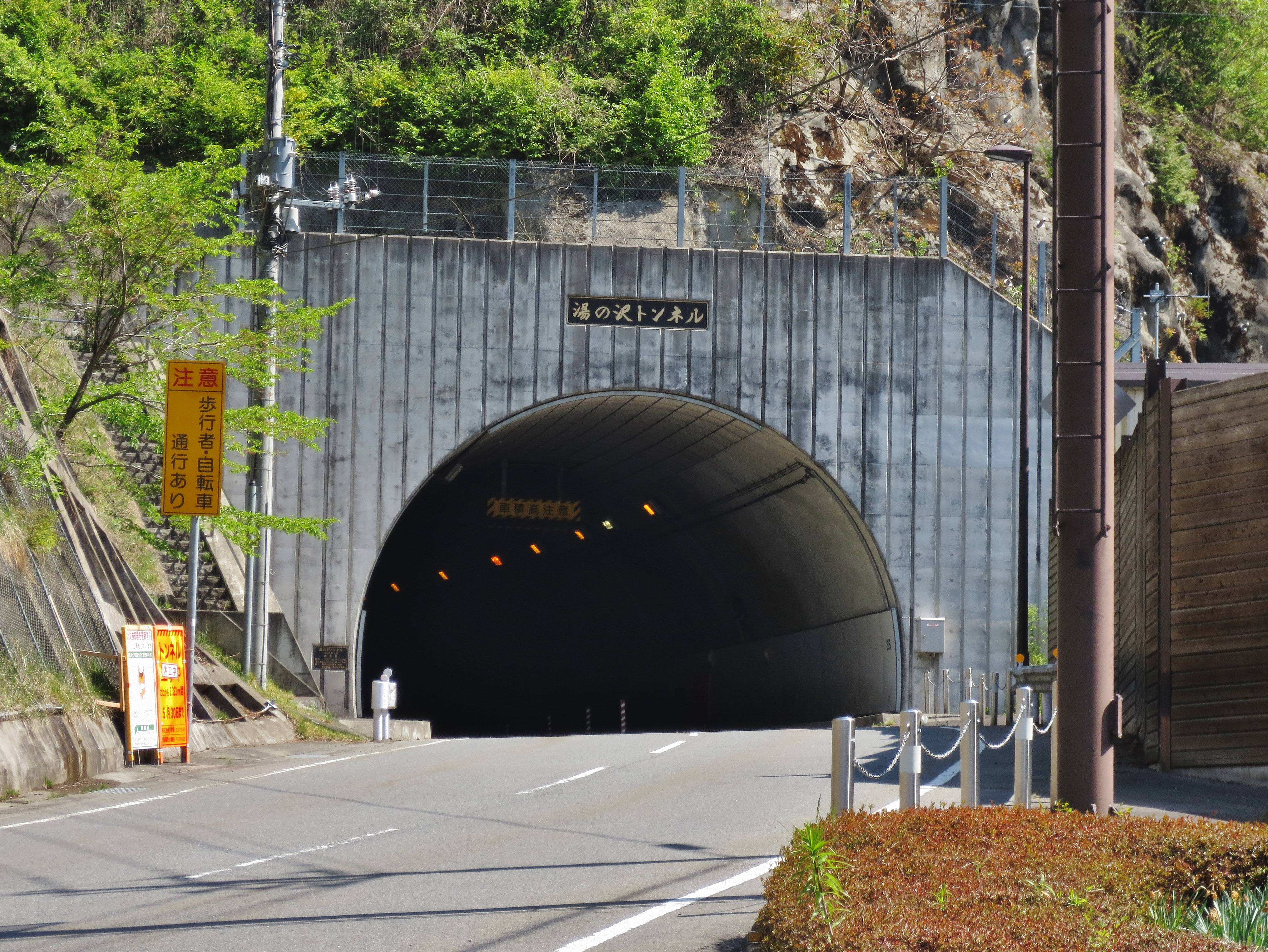 Yunosawa Tunnel.